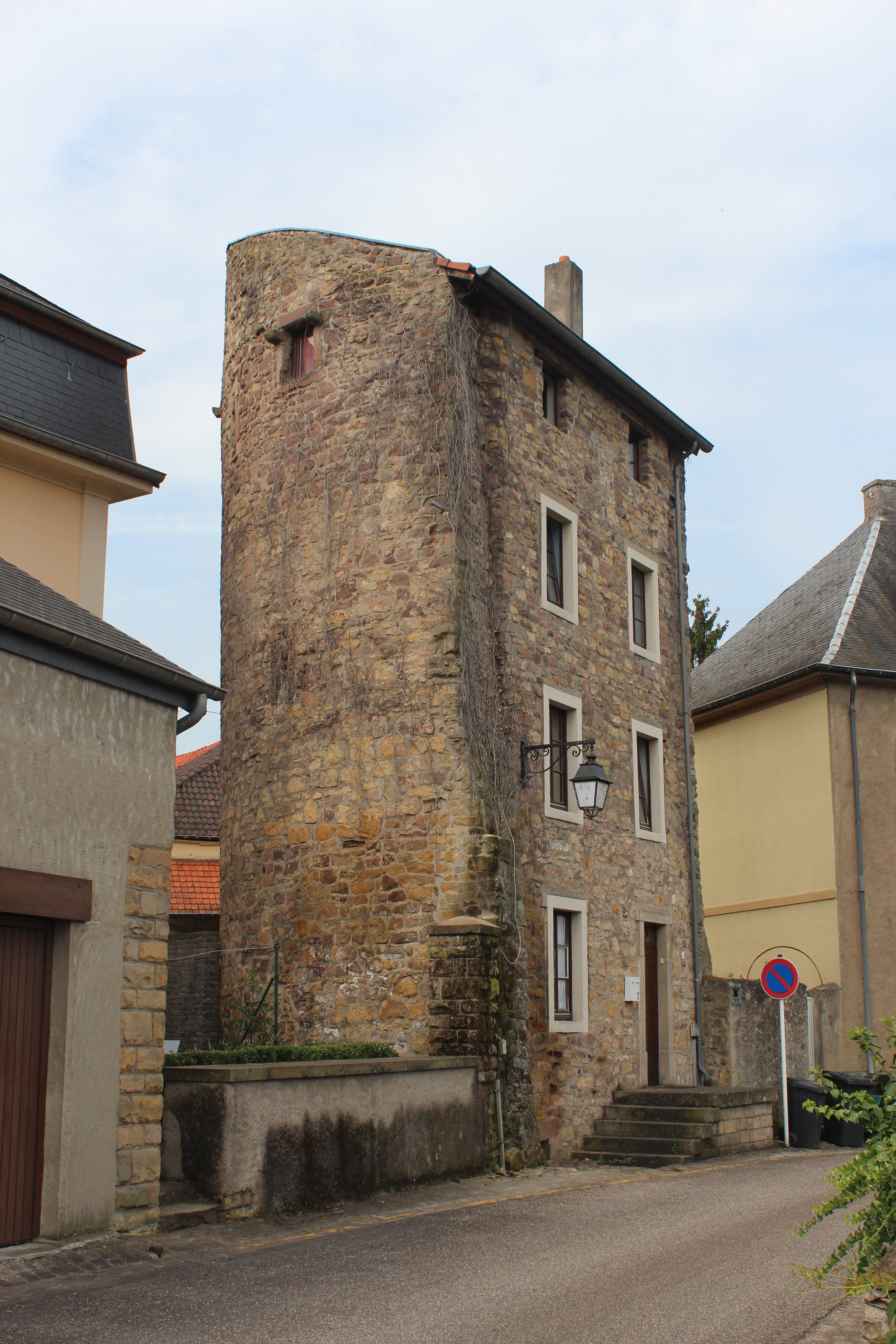 A former watchtower from the city wall of Echternach, Luxembourg, converted into a house in the 19th c,; in r J-P Brimmeyr (Ehrstrasse or Eischtricher Buergmauer)